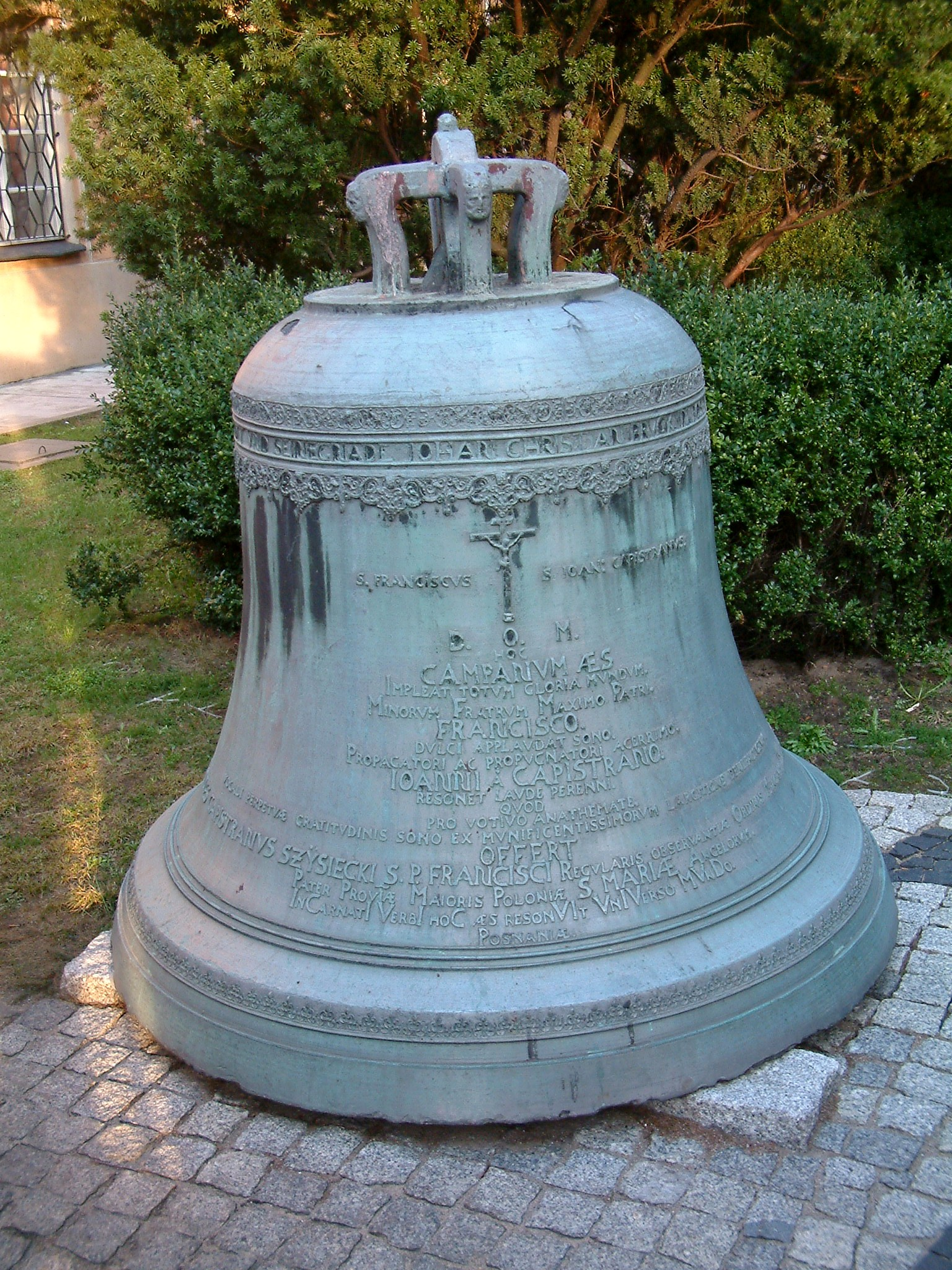 Bell from 1730 in yard of monastery of Minorites in Poznań